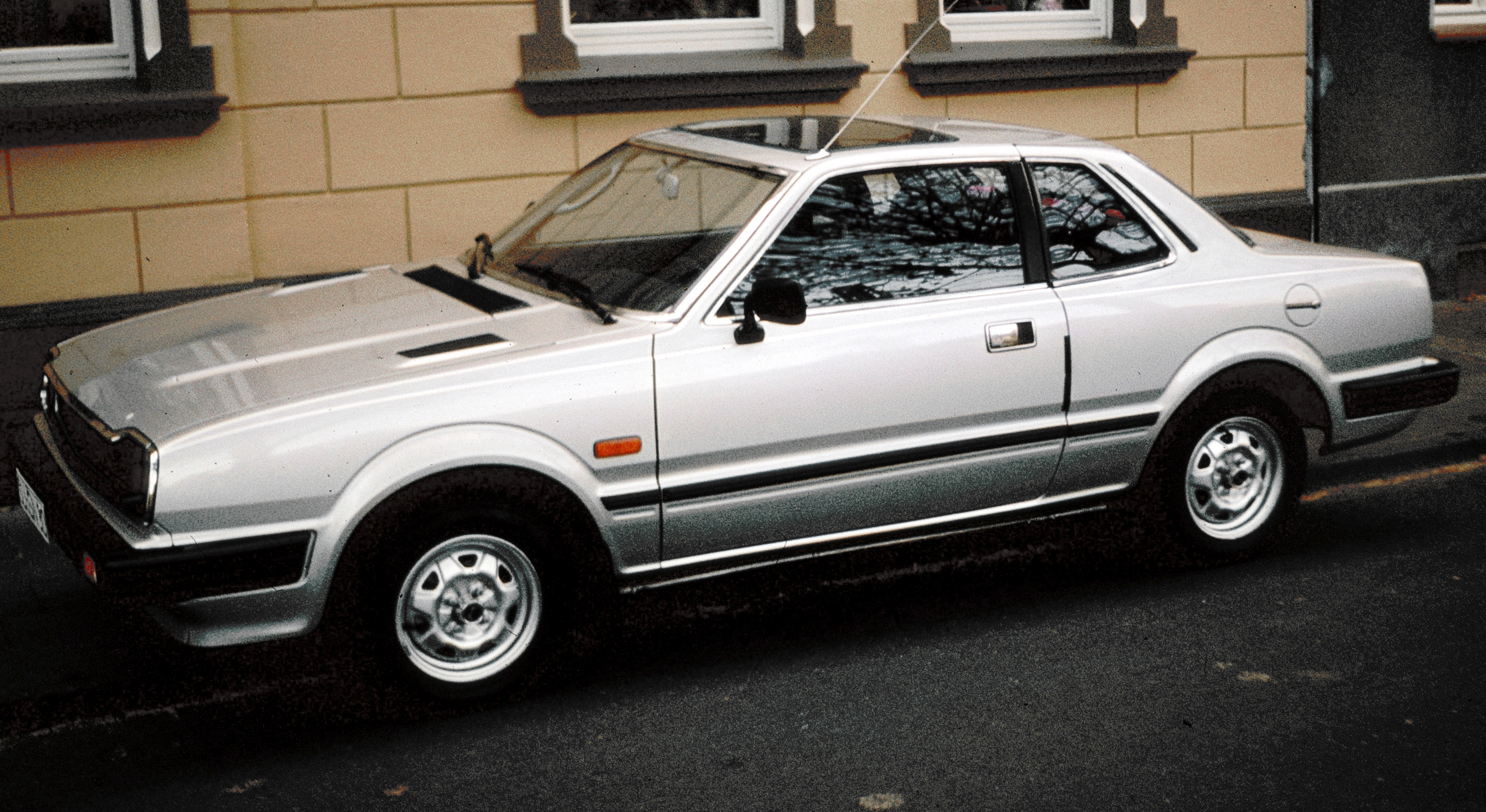 First generation Honda Prelude